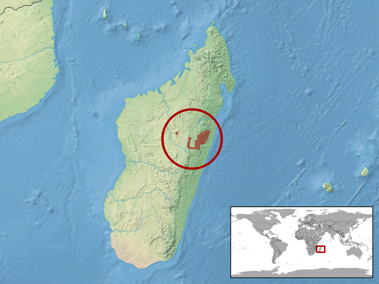 geographic distribution of Lygodactylus guibei (Native: Madagascar)